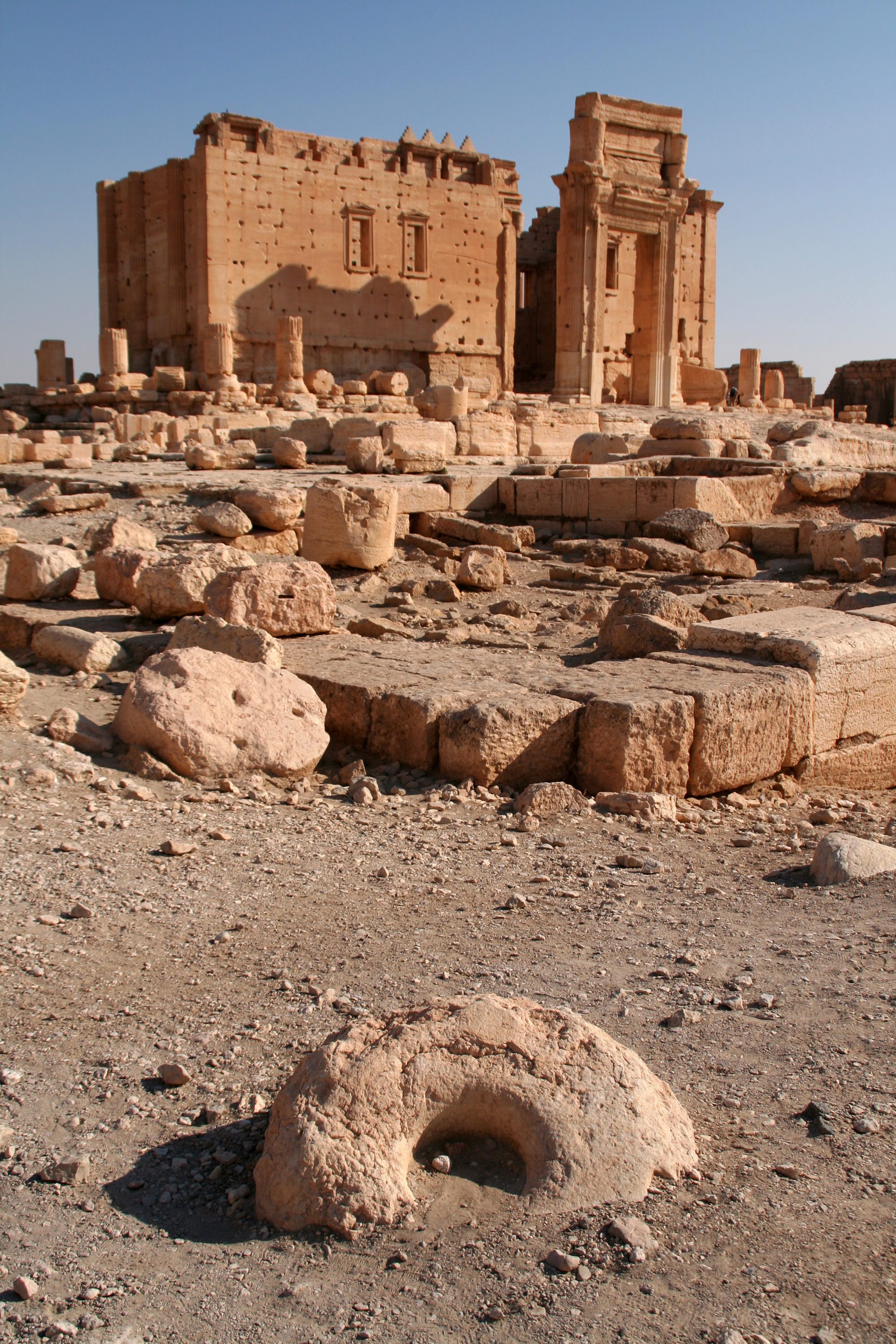 Temple of Bel, Palmyra, Syria.